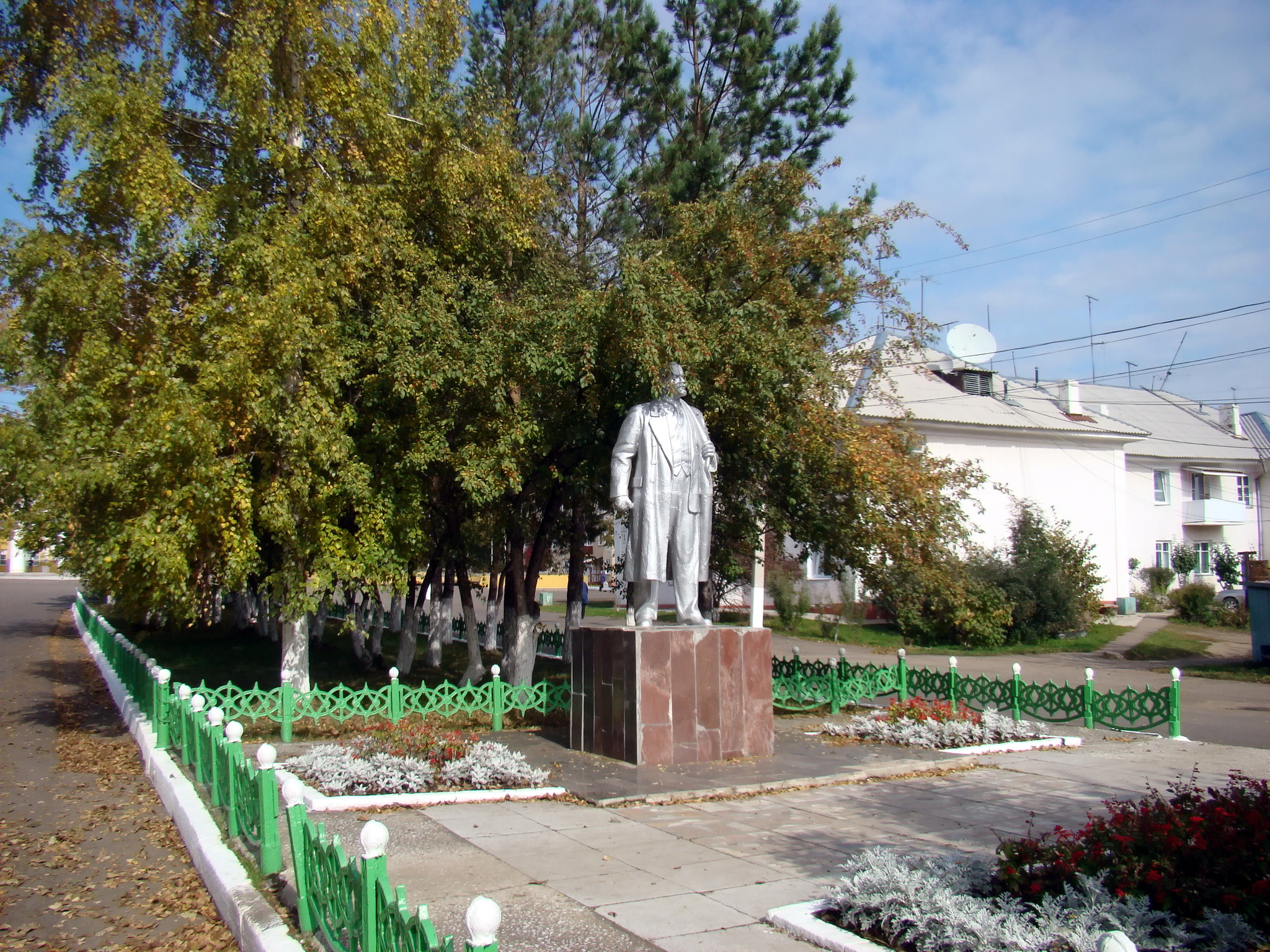 Borodino